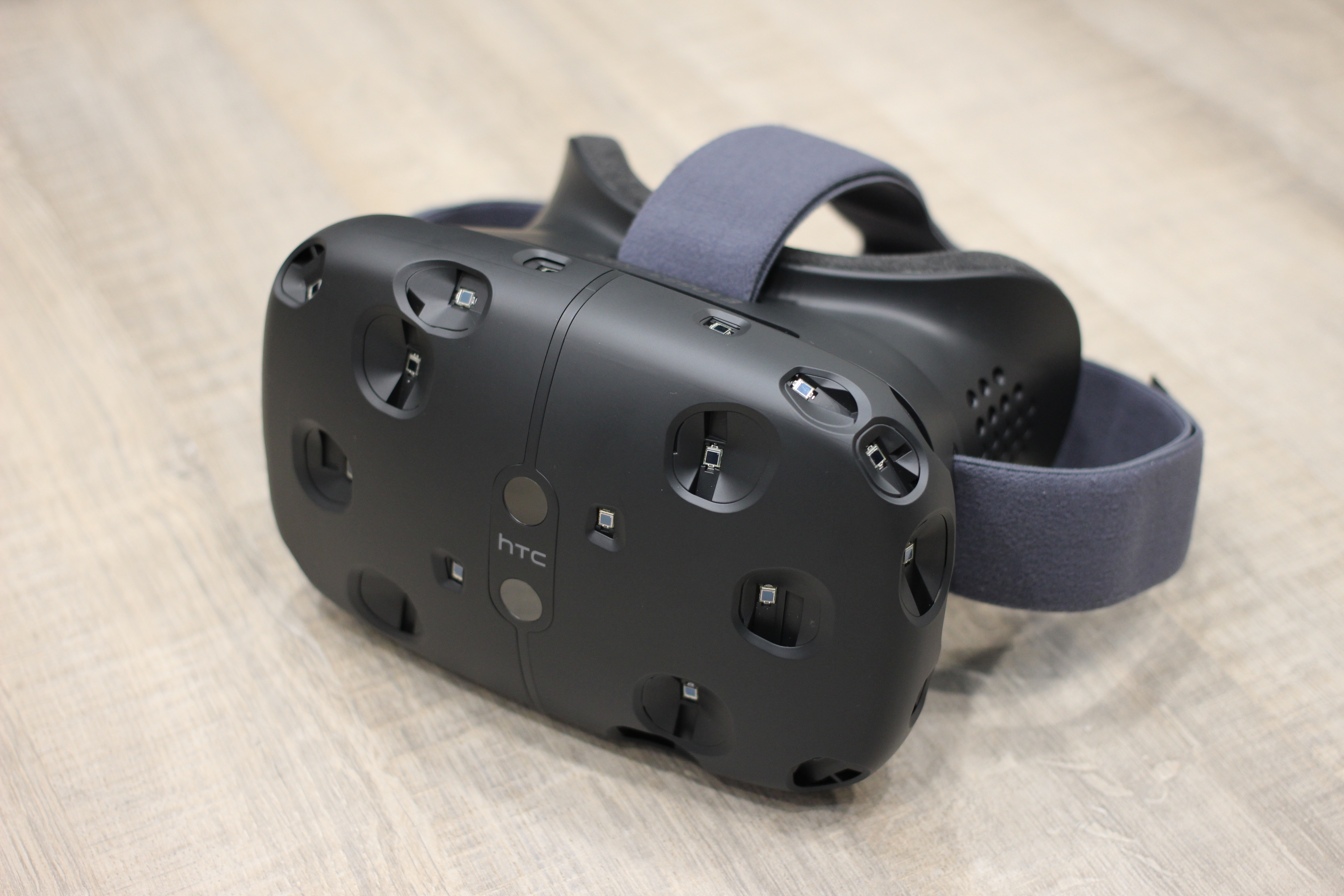 HTC Vive